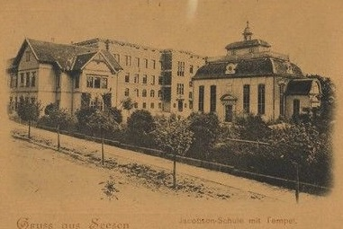 Jacobson school and synagogue in Seesen (Germany)